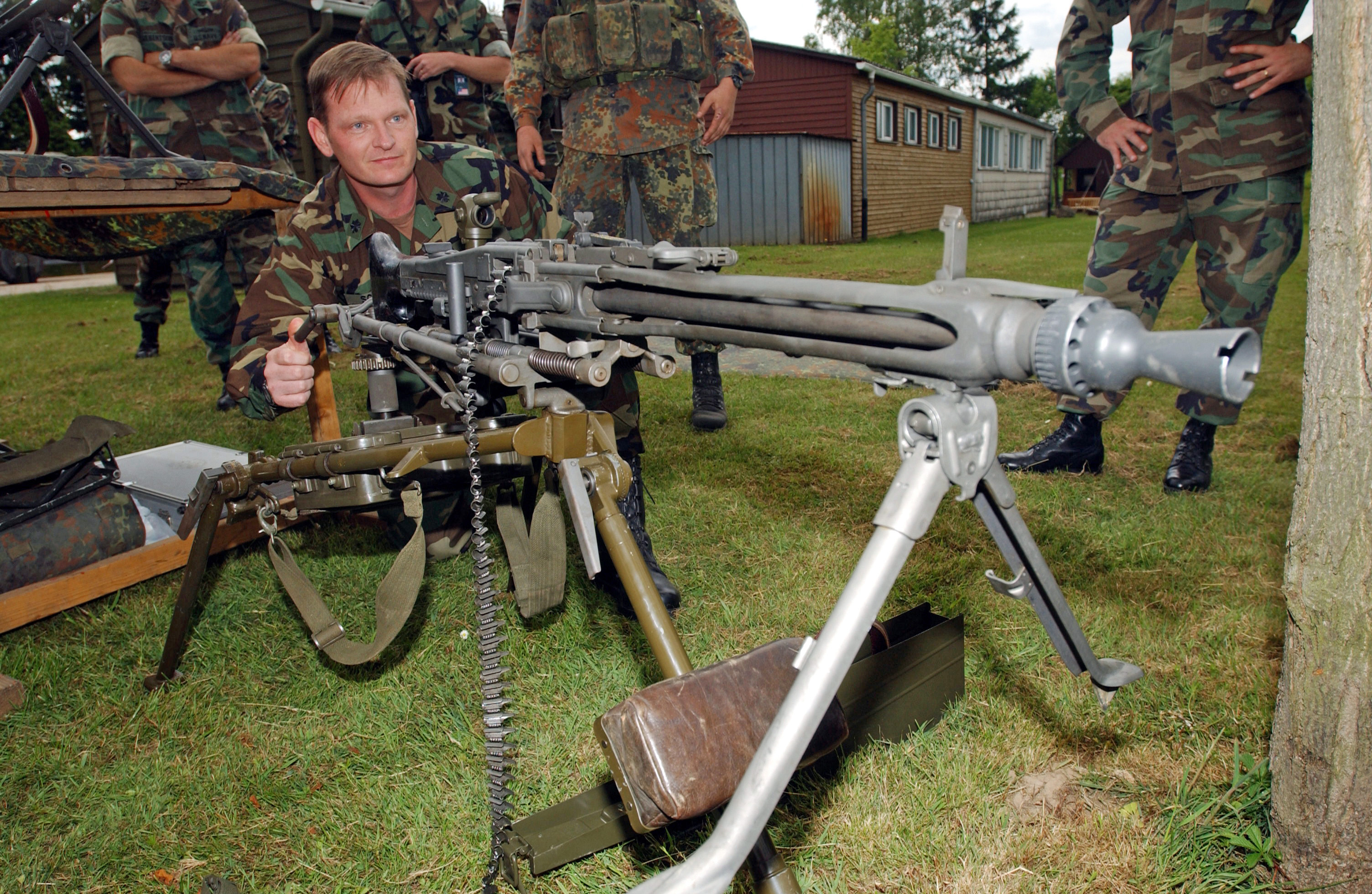 U.S. Naval commander, Major Walter Schnell, learns of the MG-3 rifle mechanics prior to firing for marksmanship on 16 May 2003, during Combined Endeavor at Lager Aulenbach, Germany. Combined Endeavor '03, a US/European Command-sponsored exercise, is designed to identify and document command, control, communications, and computer (C4) interoperability between NATO and Partnership for Peace nations. Representatives from 38 countries and NATO are taking part in the exercise, on 8-22 May 2003, at Lager Aulenbach, Germany.